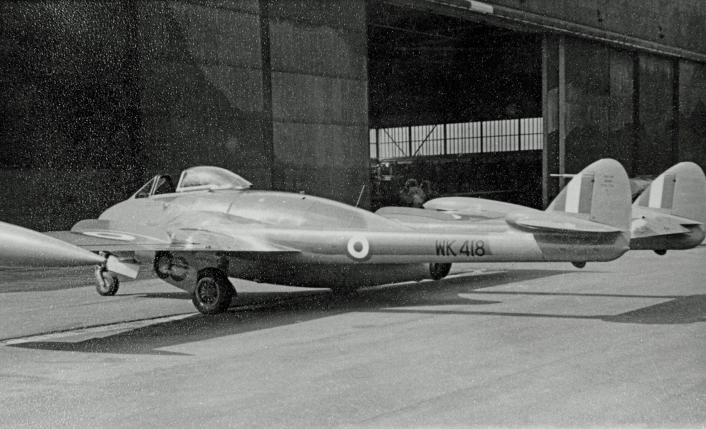 De Havilland DH.112 Venom FB.1 WK418 at Manchester Ringway Airport in 1954